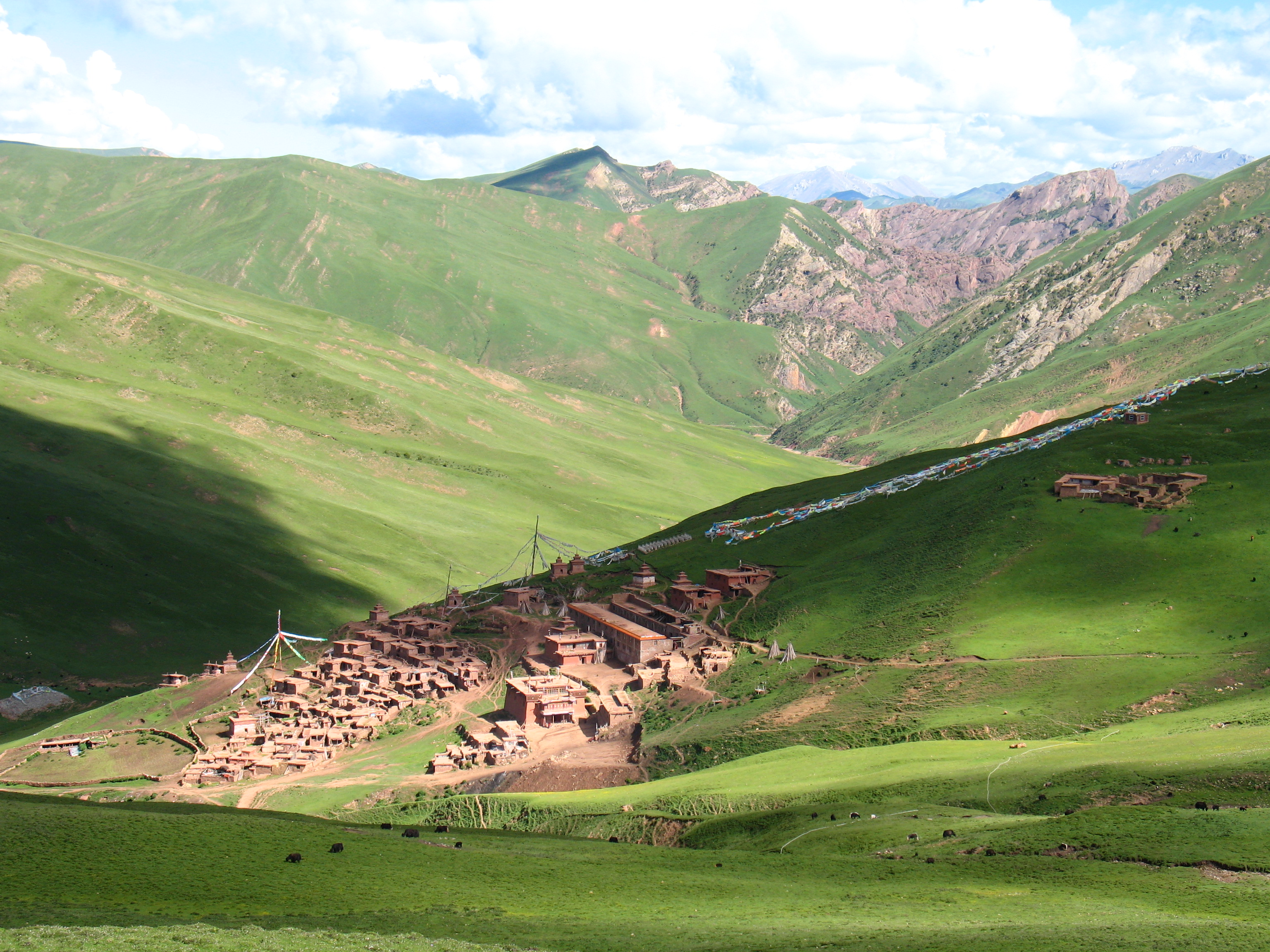 Aerial view of Gebchak Nunnery, c. 2006